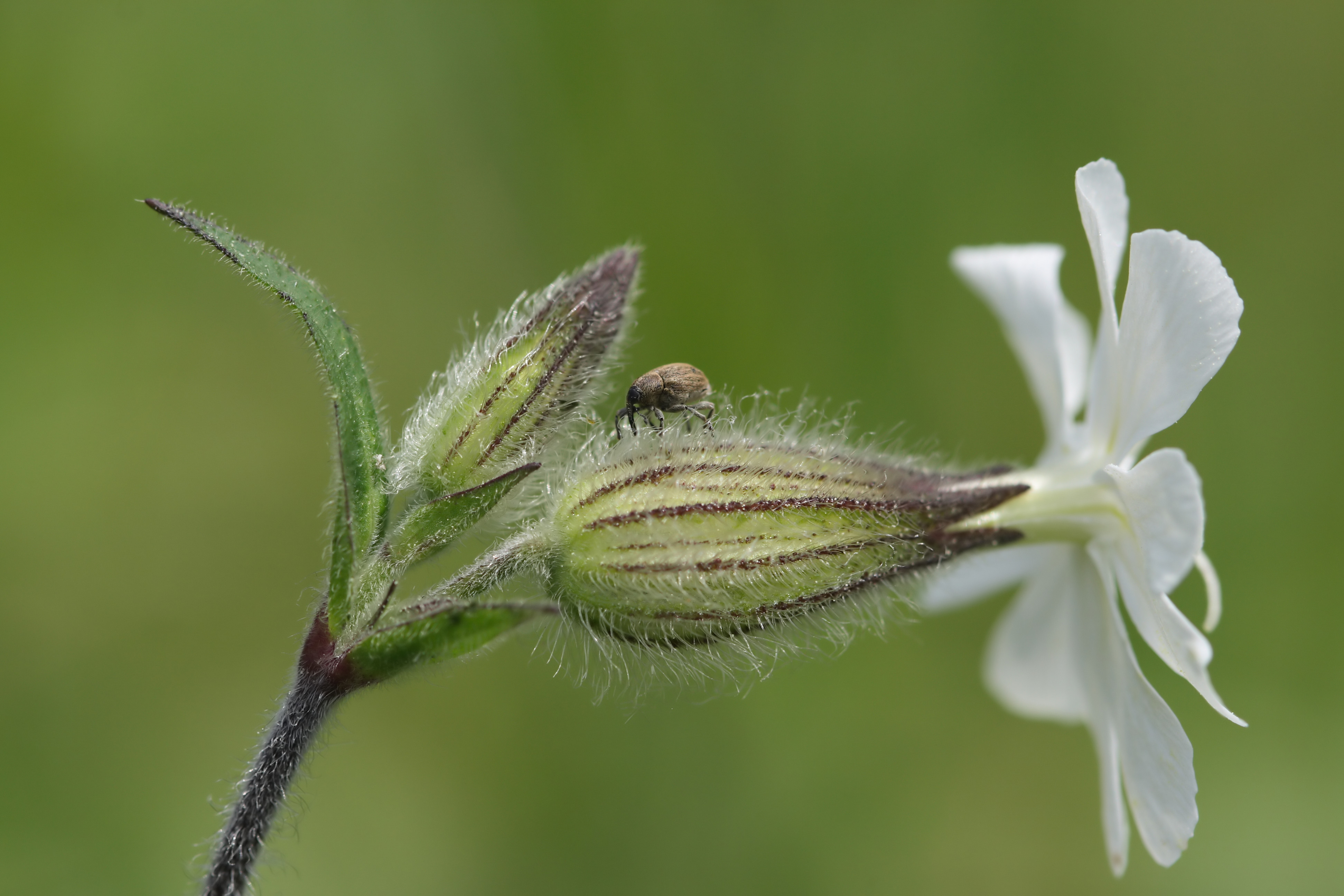 A weevil on sepals of the White Campion (Silene latifolia) in close proximity to Pietrabuona, Tuscany.